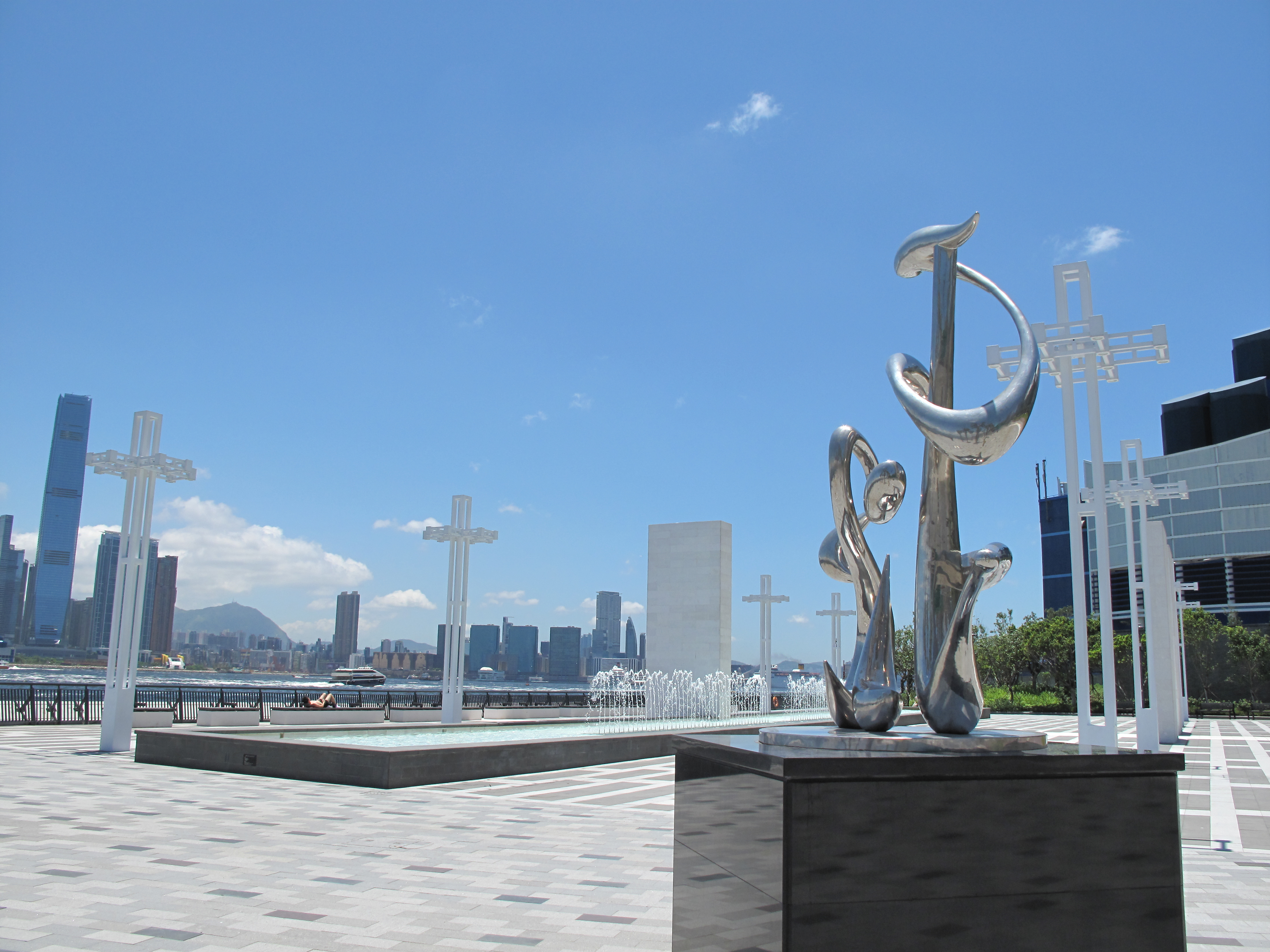 Photo of Sculptures at Promenade, Sun Yat Sen Memorial Park